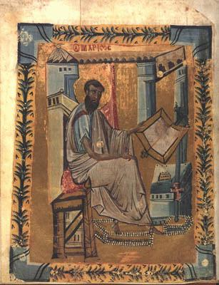 10th-century illumination of Mark the Evangelist in the Trebizond Gospel from the Russian National Library in St Petersburg.